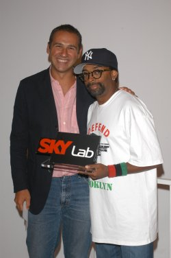 Andrea Jublin with Spike Lee